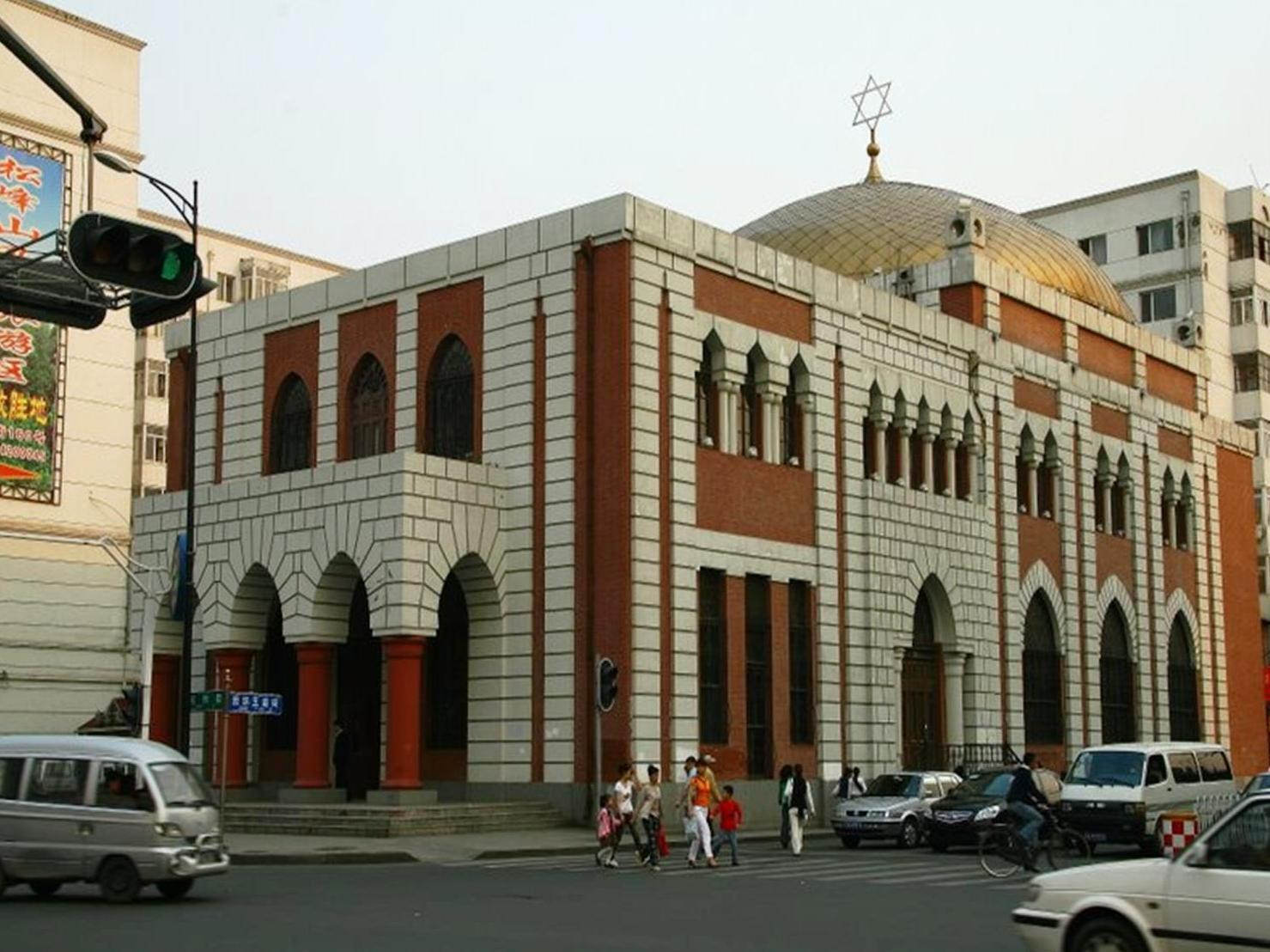 The New Harbin Synagogue